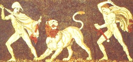 Craterus (ca. 370 BC - 321 BC, Greek: Κρατερός) was a Macedonian general under Alexander the Great and one of the Diadochi.